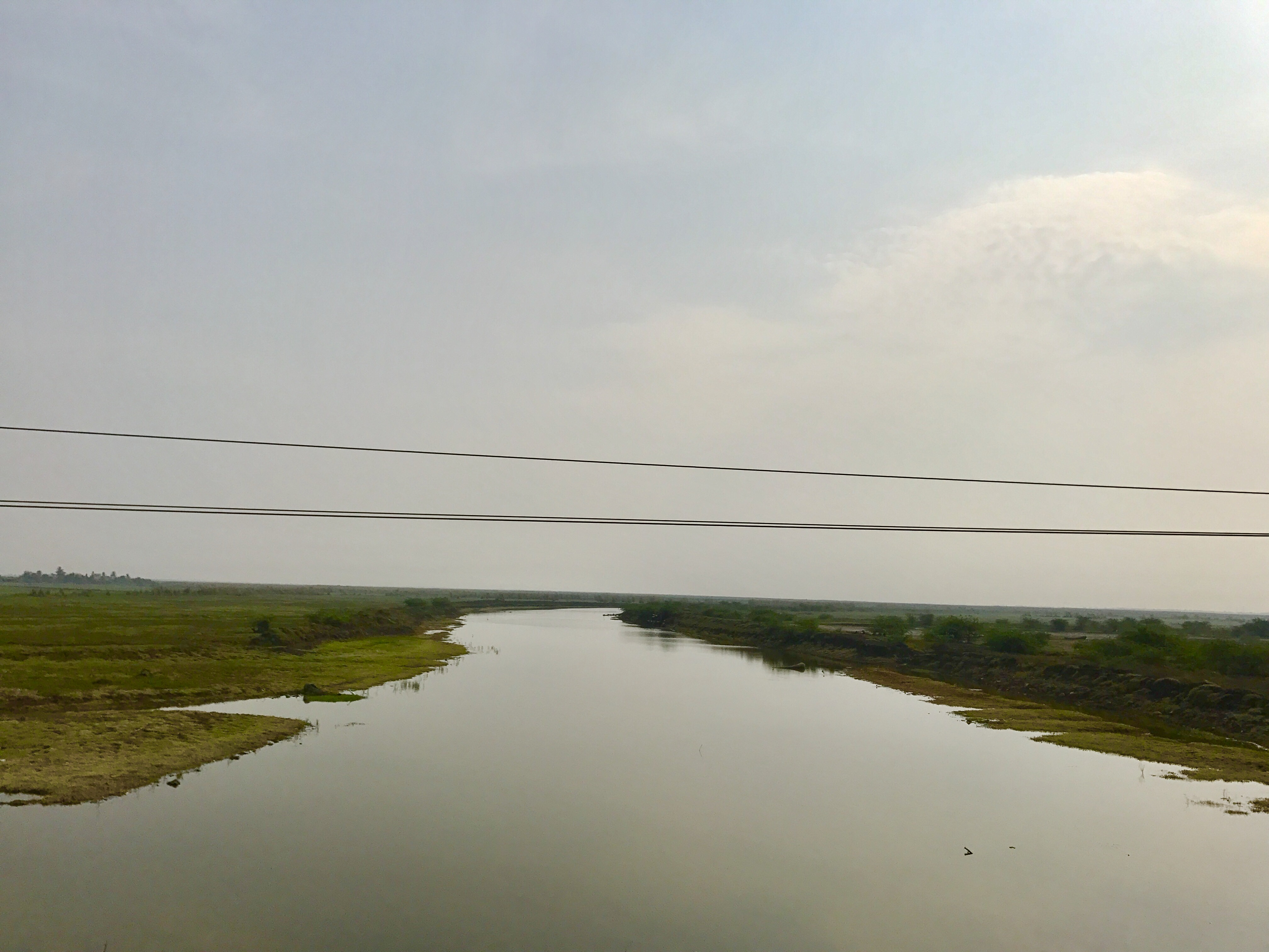 Tammileru canal merging in Kolleru